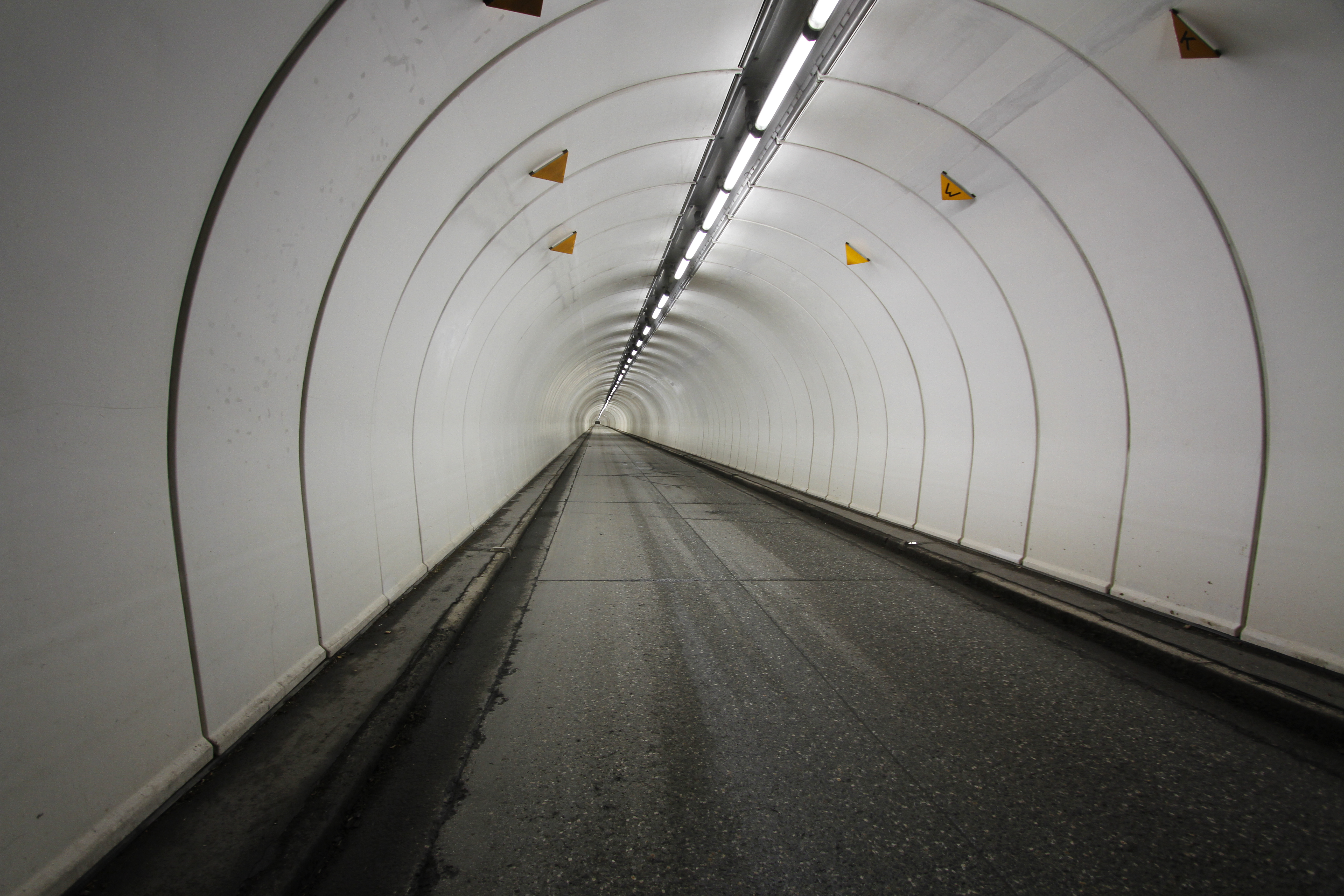 Tunnel connecting Triesenberg and Steg.